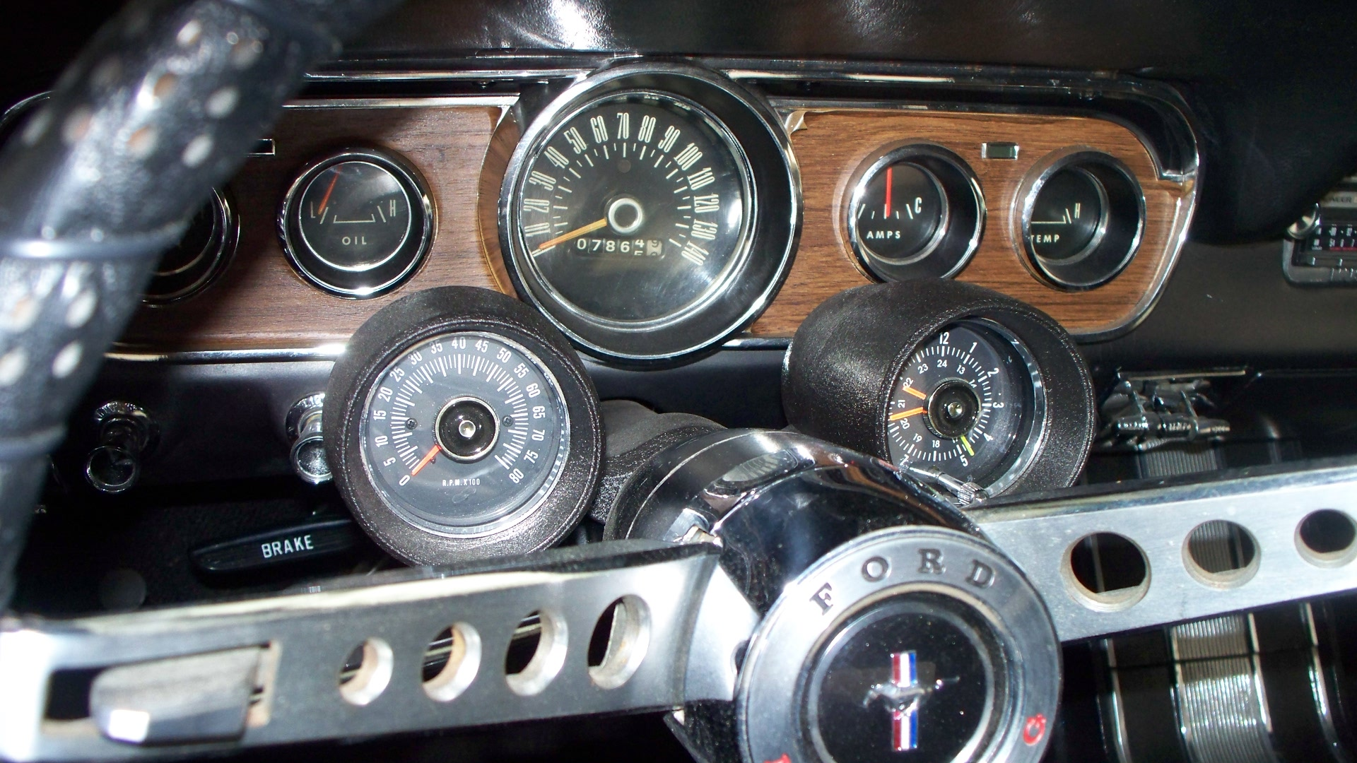 Original high-performance 8000 RPM Ford Motor Company "Rally-Pac" clock and tachometer combination unit as installed by the factory on a low-mileage, unrestored 1966 Ford Mustang GT convertible.